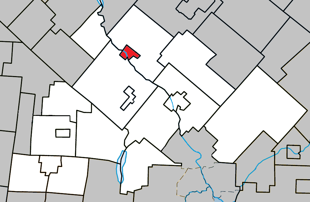 Location of Richmond, Quebec within Le Val-Saint-François Regional County Municipality.